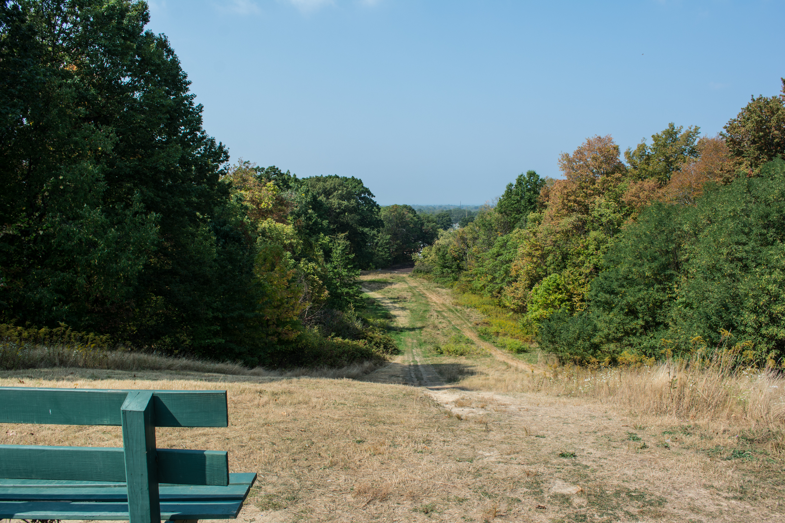 Looking northwest from the top of Toboggan Hill (the site of the Rockefeller home) on the north side of Forest Hill Park. The park consists of a portion of the John D. Rockefeller estate, and straddles the border between East Cleveland and Cleveland Heights in the state of Ohio in the United States.